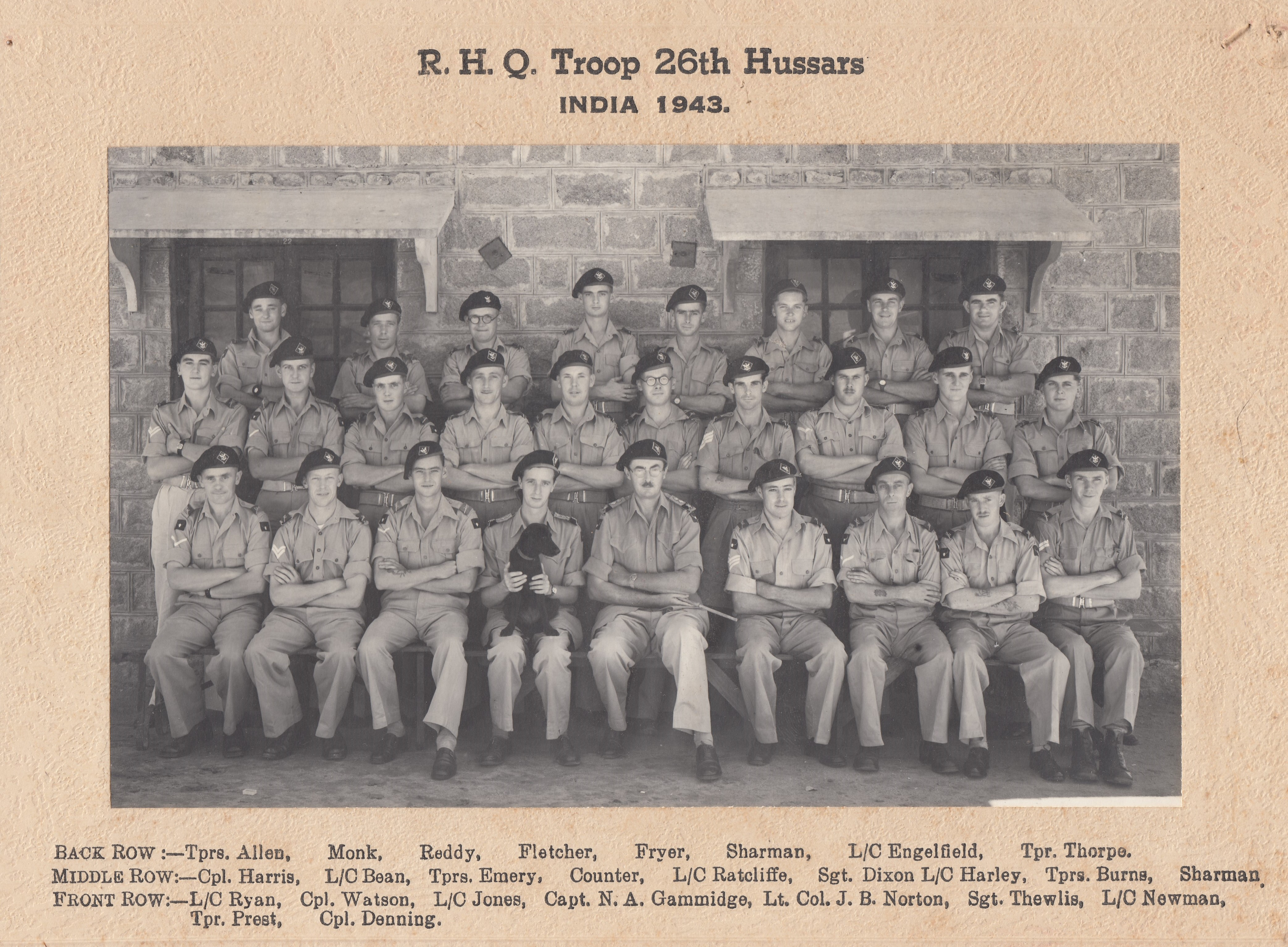 Group photograph of the HQ troop 26th Hussars